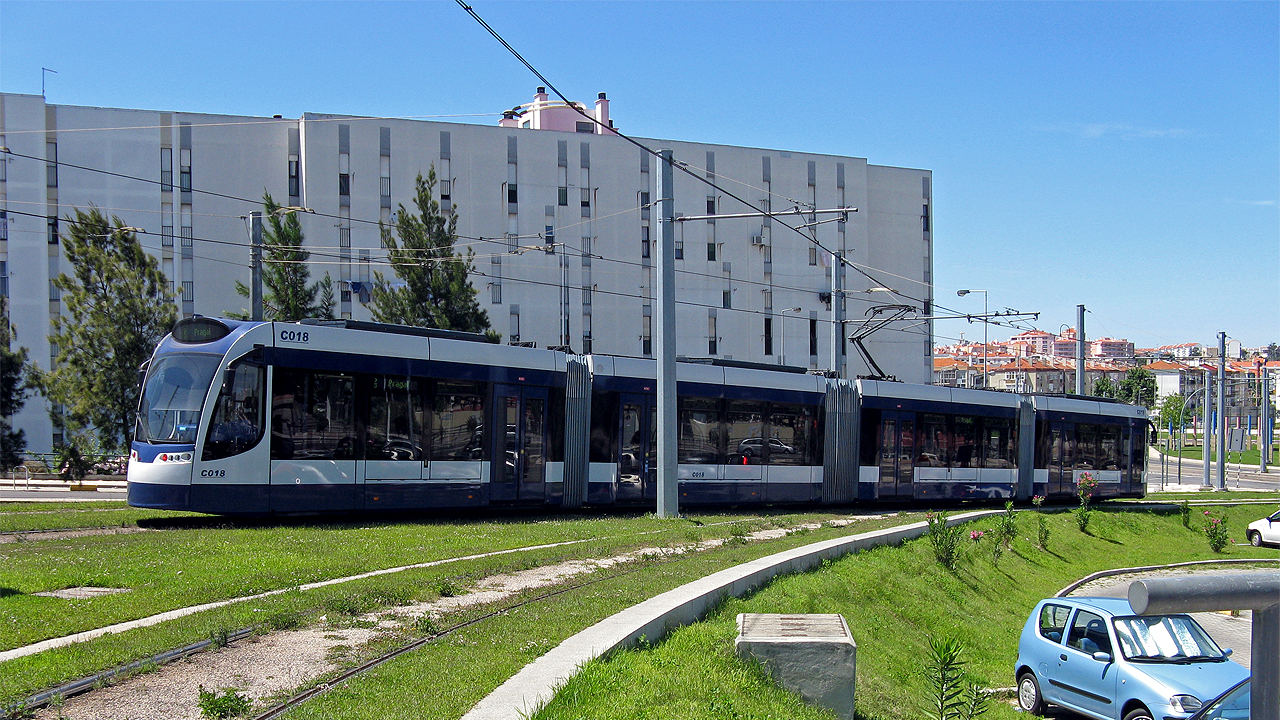 Siemens Combino Plus tram (#C018) in Almada, Portugal. Built 2007, Metro Transportes do Sul (MTS) operator.